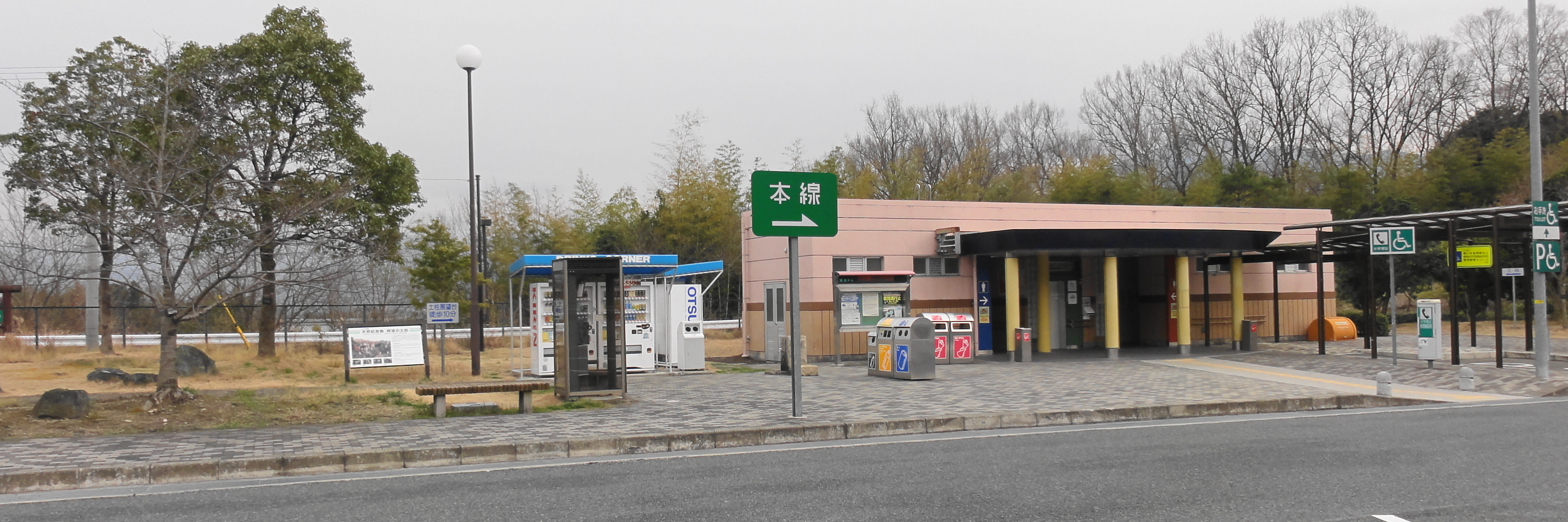 Awa Parking Area ,Tokushima prefecture, Japan